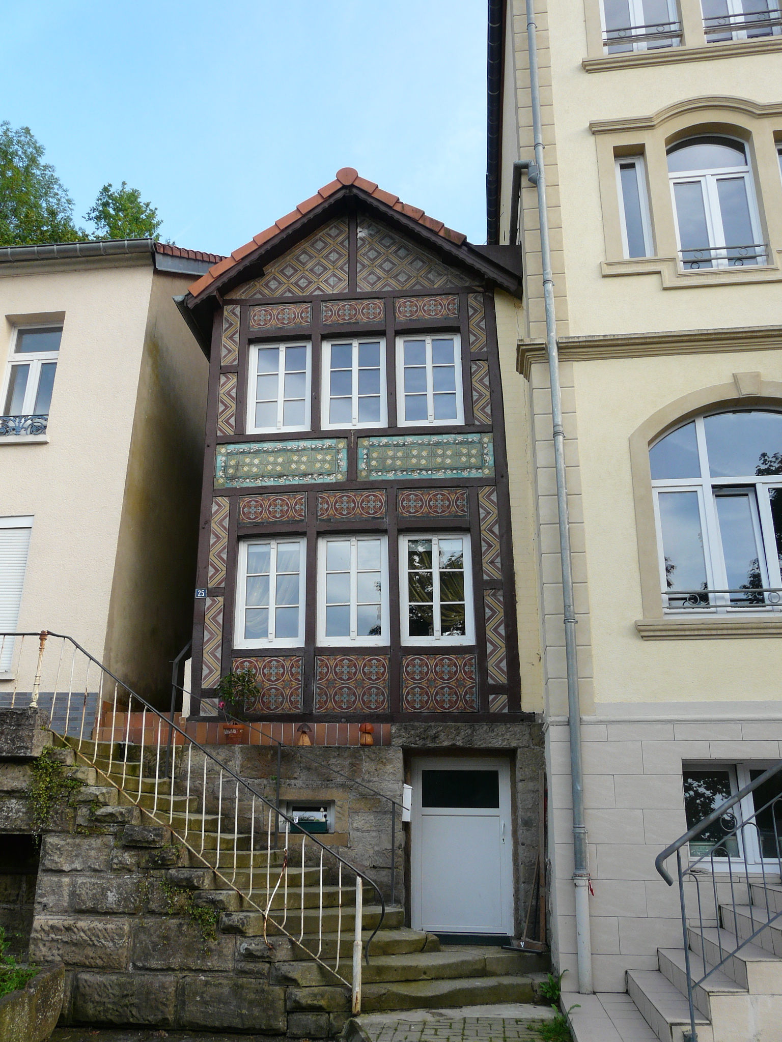 Former Grundhof Train Station; Cultural heritage monument (Inventaire supplémentaire) since 14.05.1991